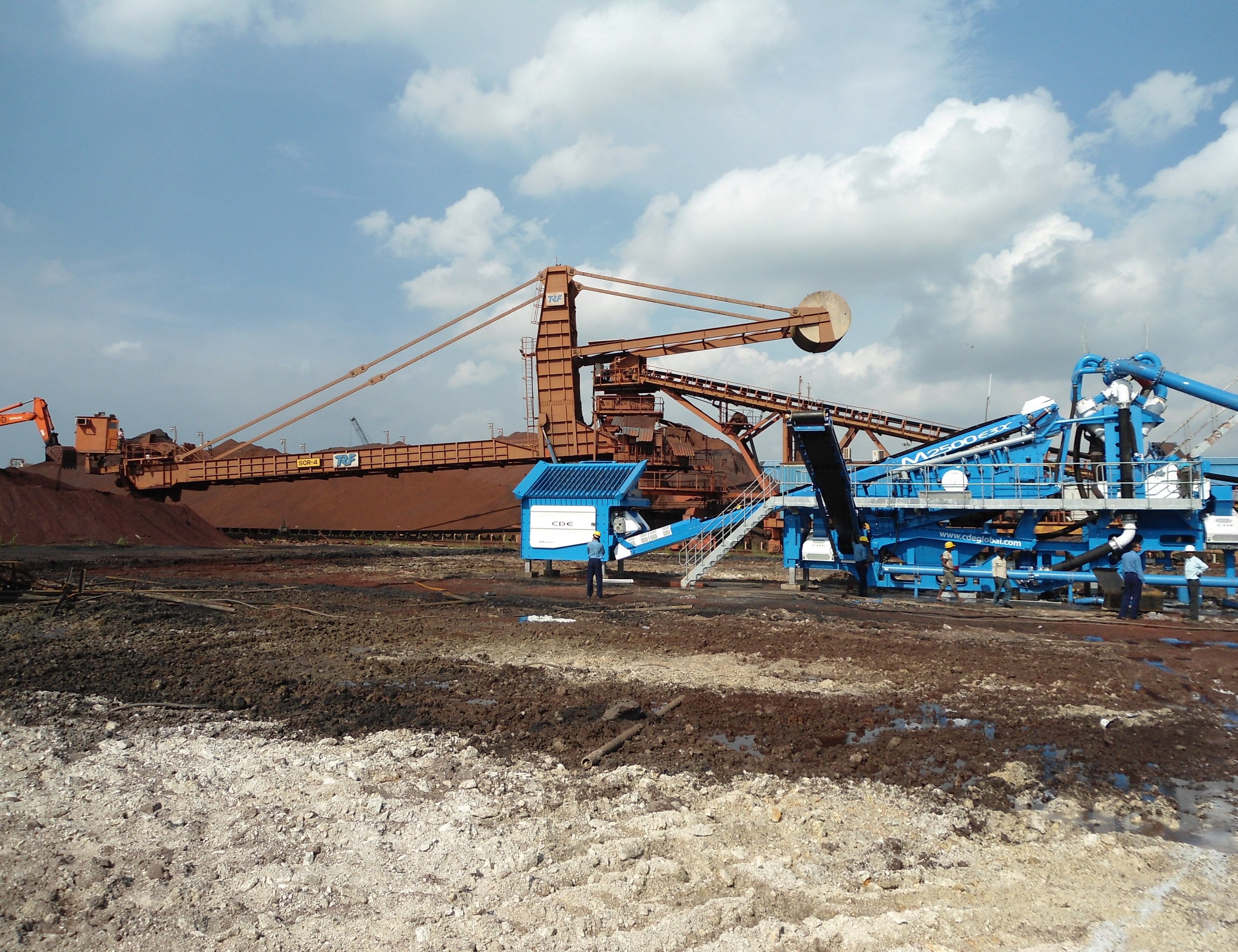 Washing mined iron ore in Orissa, India.